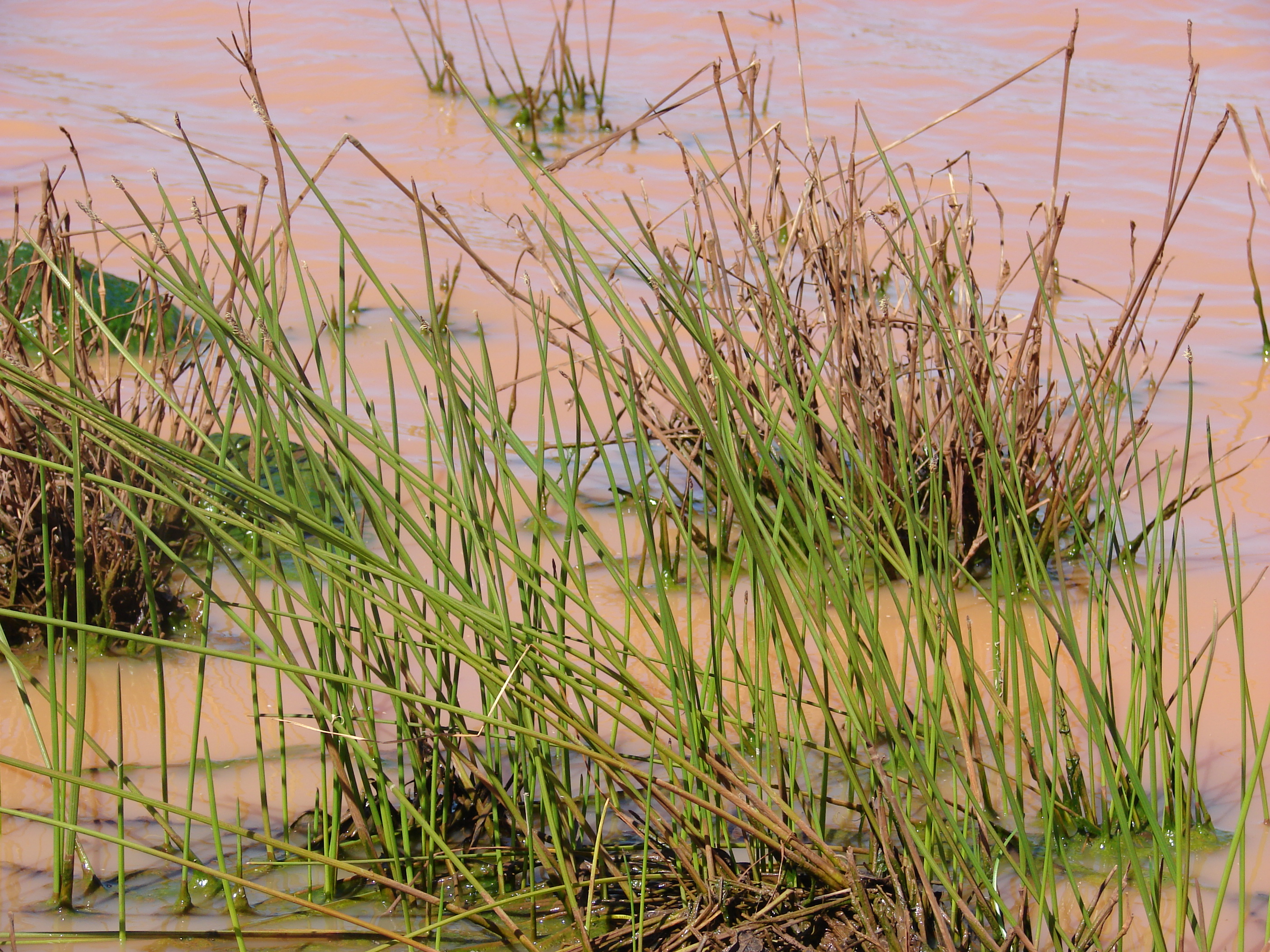 Eleocharis calva (habit in wetland). Location: Kahoolawe, Lua Kealialalo